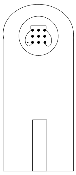 Graphic for the Leongo bola jokoa